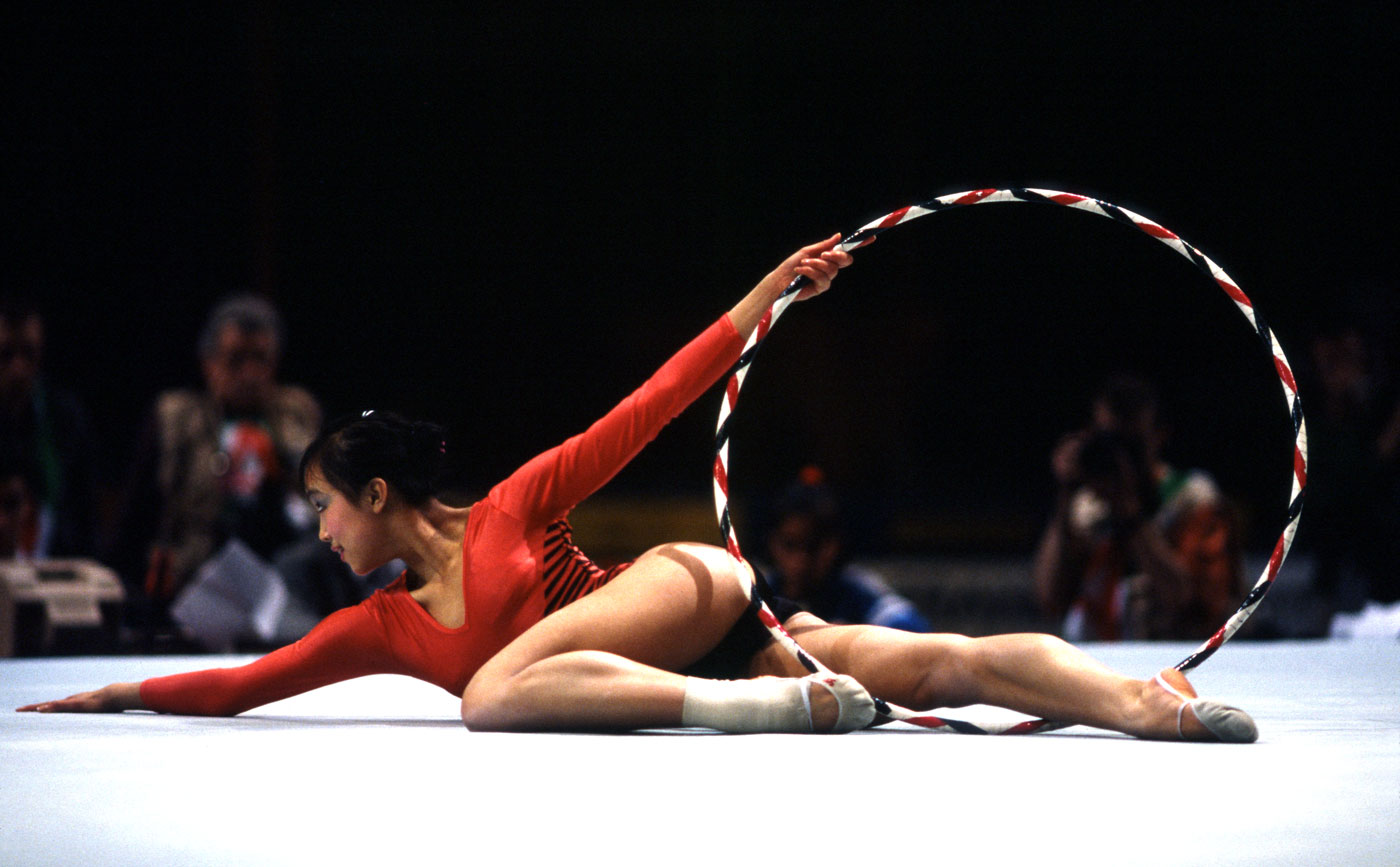 HEXIAOMIN (CHN) Paris-Bercy 23-25/03/1990